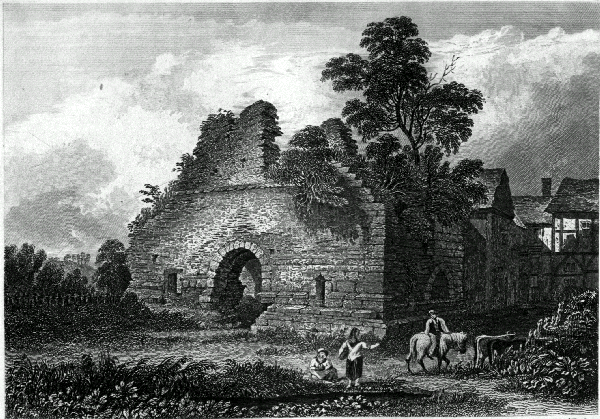 Radcliffe Tower in the early nineteenth century.